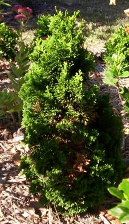 Authors own specimen HelloMojo 05:00, 18 March 2007 (UTC)